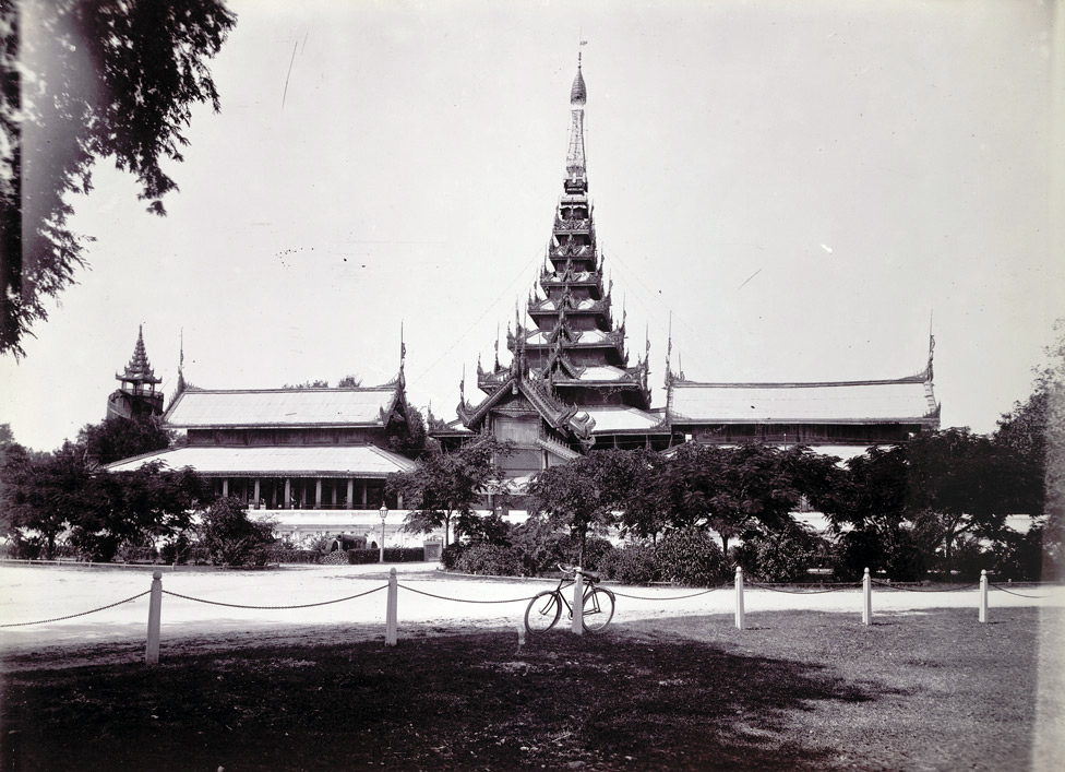 Photograph of the Nandaw (Royal Palace) at Mandalay in Burma (Myanmar), from the Archaeological Survey of India Collections: Burma Circle, 1903-07. The photograph was taken by an unknown photographer in 1903 under the direction of Taw Sein Ko, the Superintendent of the Archaeological Survey of Burma at the time. This is a view of the Great Audience Hall, with two-tiered roofs, which was situated at the eastern end of the palace facing the main city gate of Mandalay. Above it in the centre rises the gold-plated seven-tiered spire or pyatthat known as the "Centre of the Universe", which marked the sacred space of the Lion Throne room below. Mandalay was founded in 1857 by Mindon Min (reigned 1853-78), Burma’s penultimate king, in fulfilment of a Buddhist prophecy that a religious centre would be built at the foot of Mandalay Hill. In 1861 the court was transferred to the newly-built city from the previous capital of Amarapura and it became Burma’s last great royal capital. The royal palace or Nandaw stood at the centre of the walled city and was one of the first buildings to be constructed, re-using many parts of the teak buildings from Amarapura. The glory of Mandalay was shortlived as it was annexed by the British Empire in 1886 after the Third Anglo-Burmese war, and the Burmese monarchy was sent into exile in India. The original palace was destroyed by fire during Allied bombing raids in 1945 during the Second World War but has since been partially reconstructed.